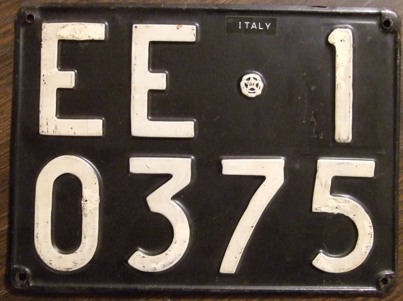 EE=Temporary